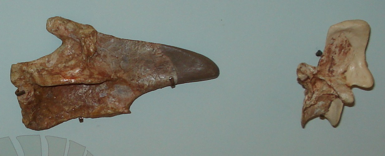 fossil of ctenosauriscus, Ilium and anterior dorsal vertebra.